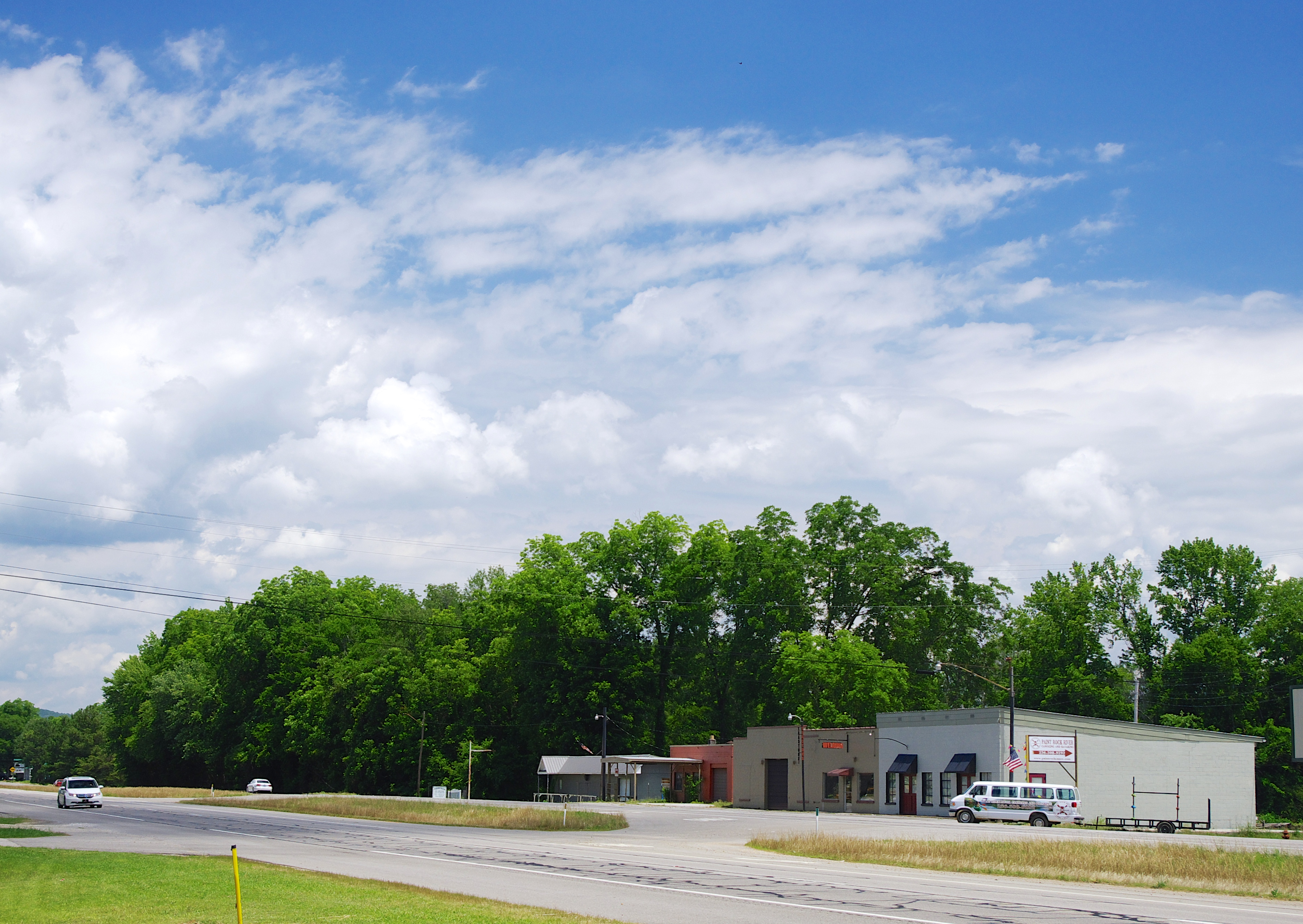 Businesses along U.S. Route 72 in Paint Rock, Alabama, United States.